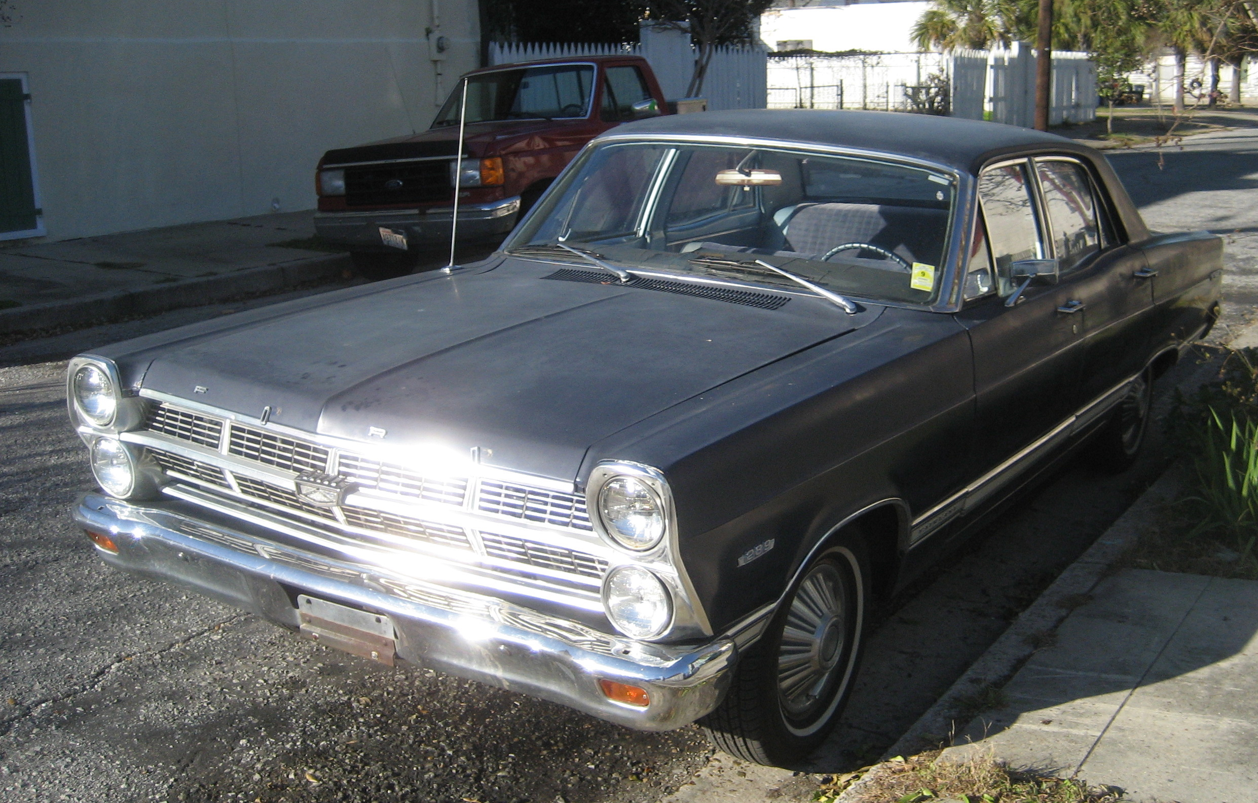 1960s Ford Fairlane parked on street in Bywater section of New Orleans.